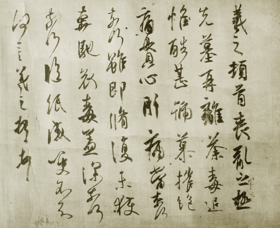 1st section of a copy of Letters by Wang Xizhi(ACE303?-361), in Imperial Agency, Japan, Ink on Paper, 28.7cm height